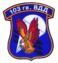 Russian 103th Airborne Division patch sleeve.